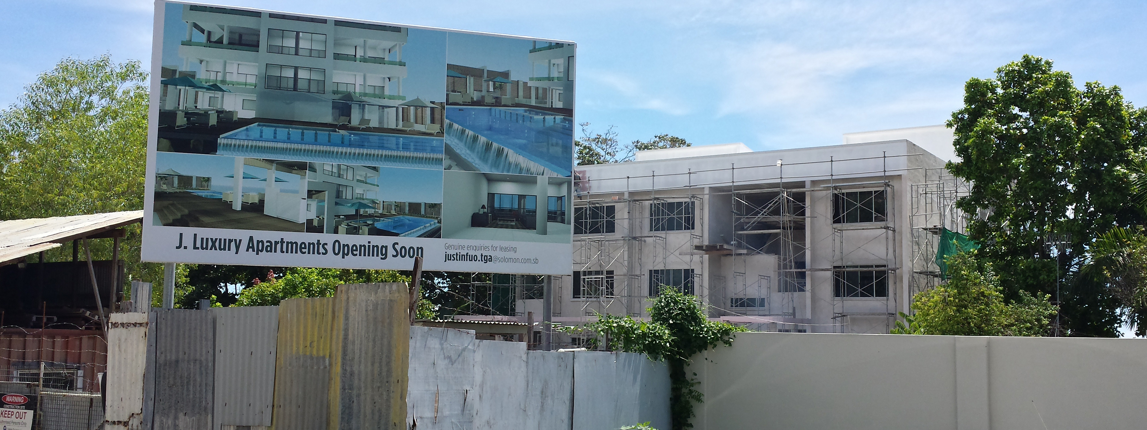 Photo of new development on the foreshore at WhiteRiver. Facing North